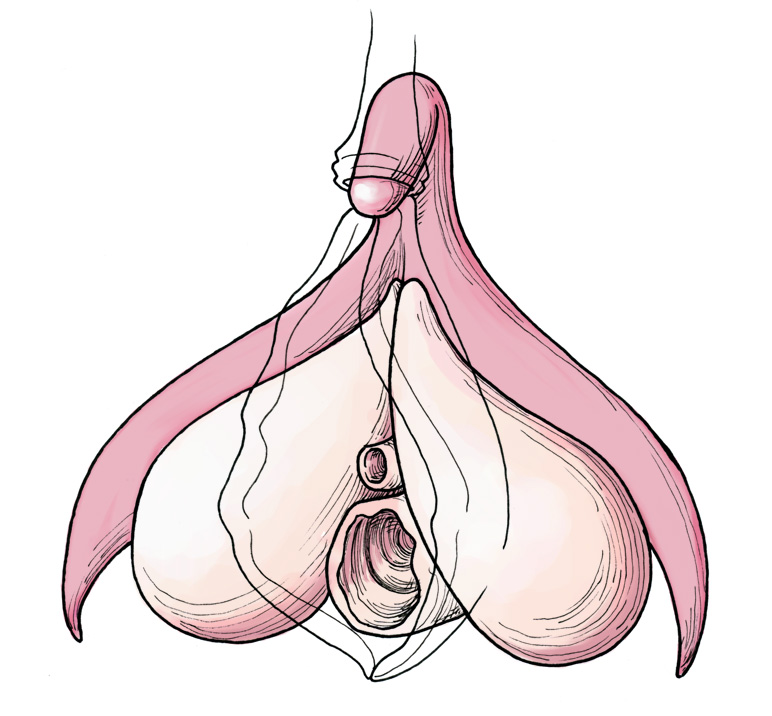 A picture showing the internal anatomy of the vulva, focusing on the anatomy and location of the clitoris. Updated drawing of the older image Clitoris_inner_anatomy.png. Unlabeled version.